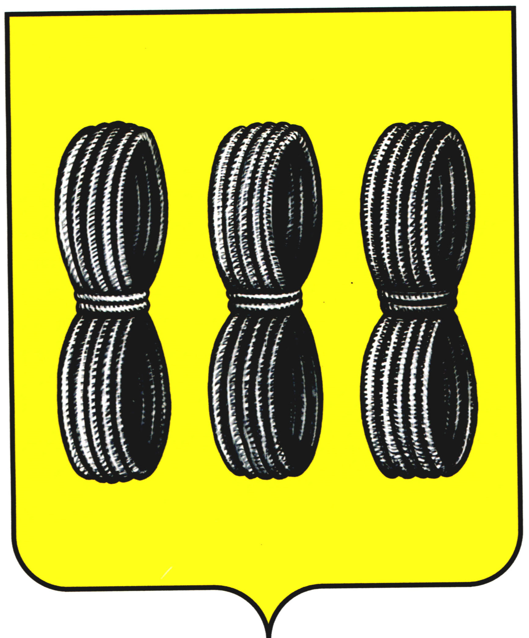 Novorzhev (Pskov oblast), coat of arms